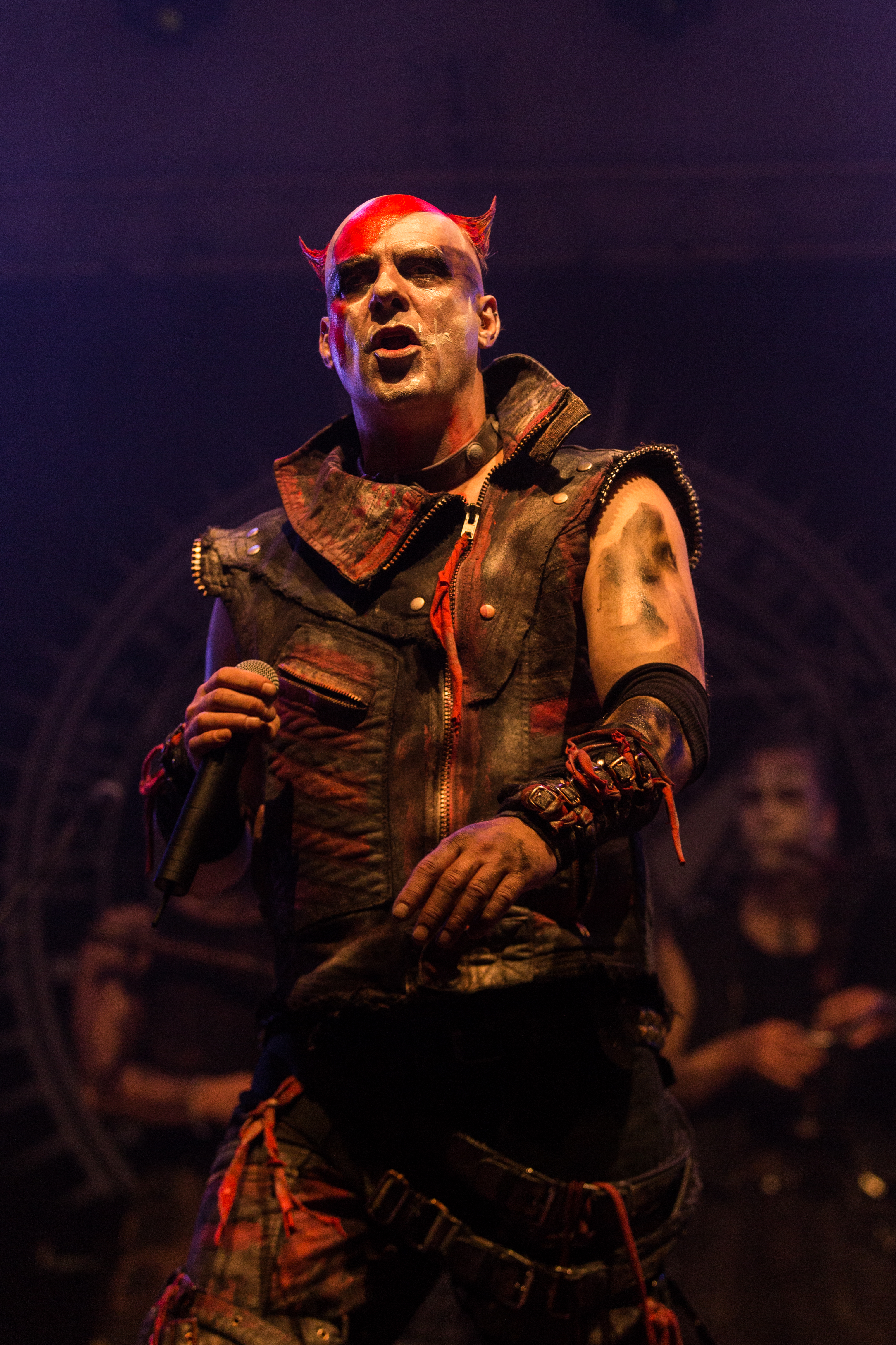 The German medieval rock band Tanzwut at the Wave-Gotik-Treffen 2017 in Leipzig/Germany (Venue Heathen village).